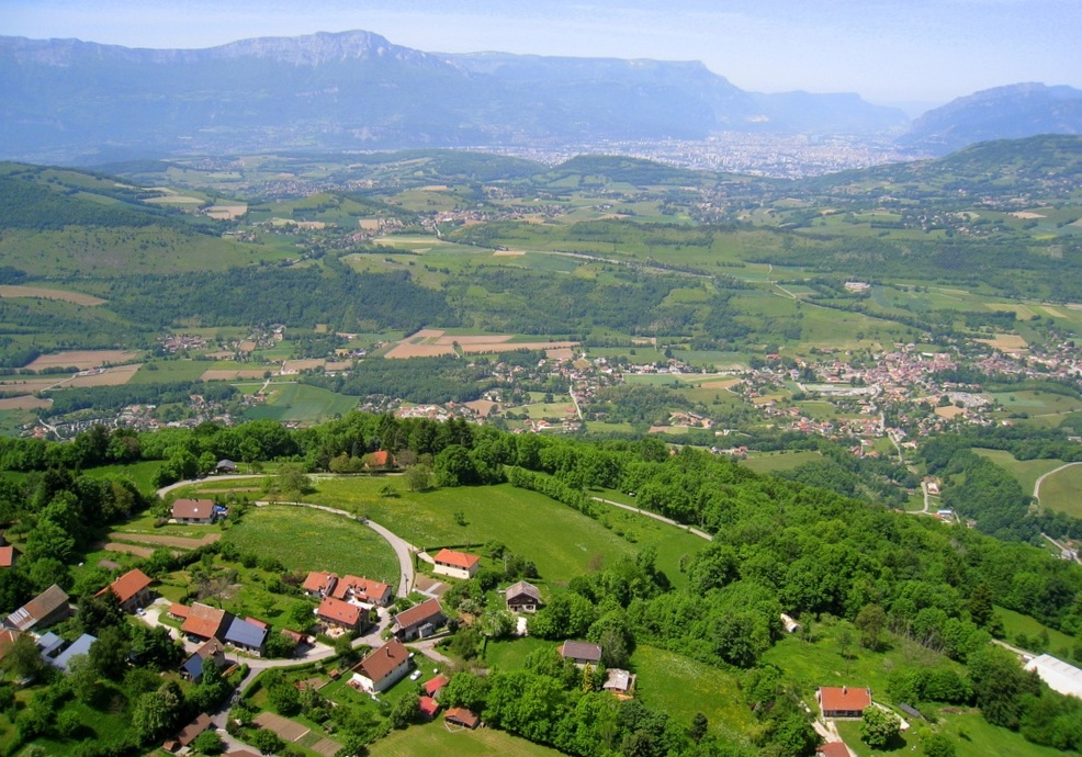 Aerial photo of Montchaffrey